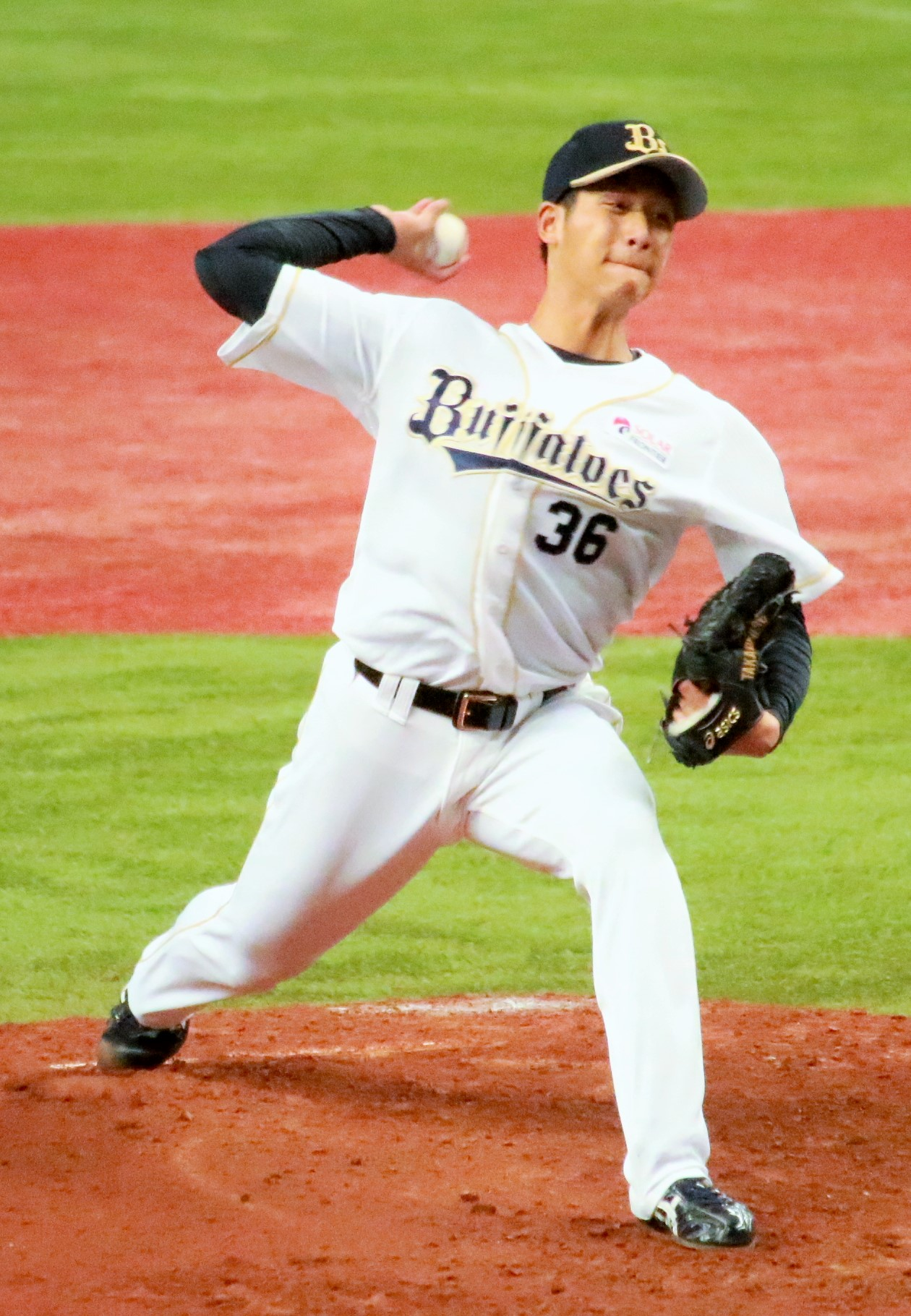 Ban Takagi, pitcher of the Orix Buffaloes, at Osaka Dome.